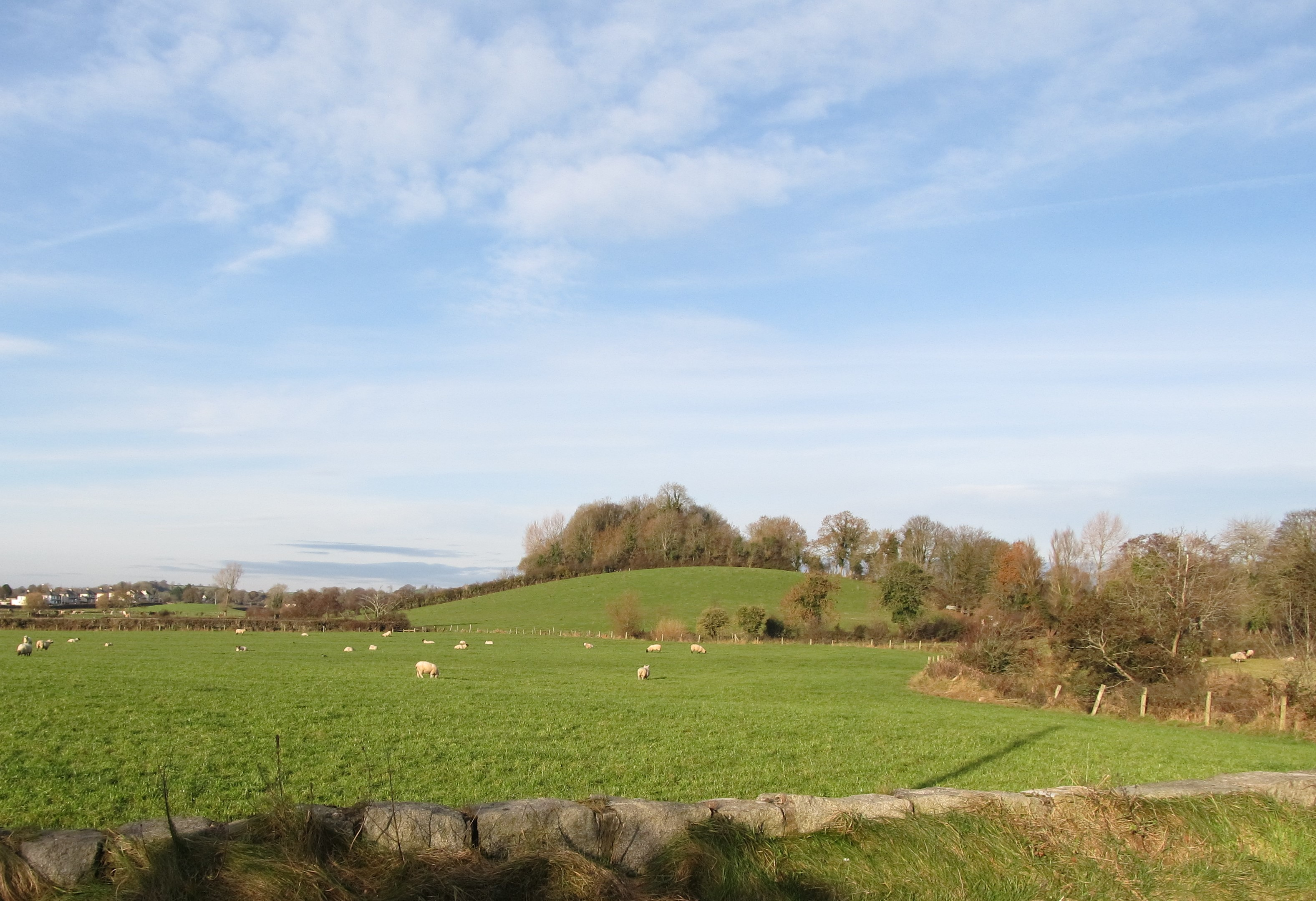 Crown Mound, a wooded motte at a bend in the Clanrye River, close to Newry.